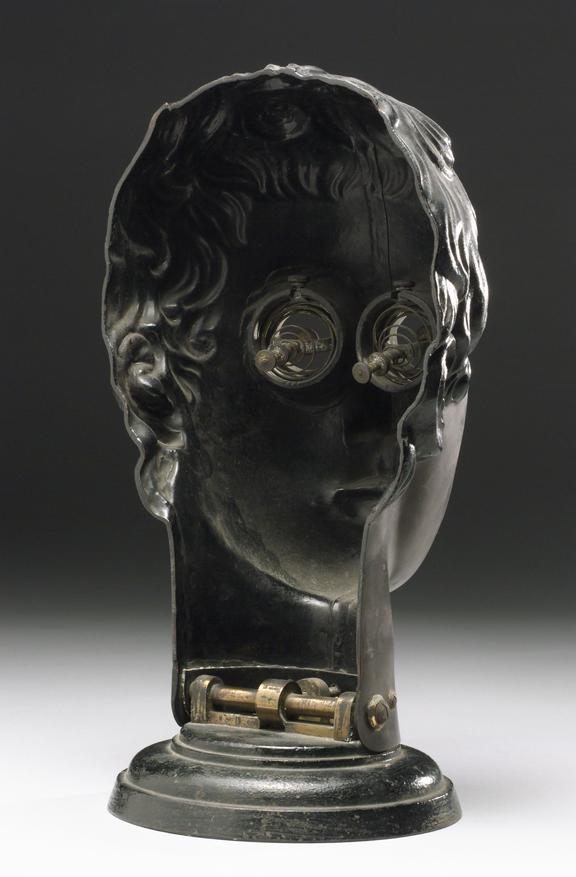 Back Bakelite face phantom. Rear three quarter view. Graduated grey background. Simulate and learn eye surgery. Inventor 1827 Dr. Albert Sachs